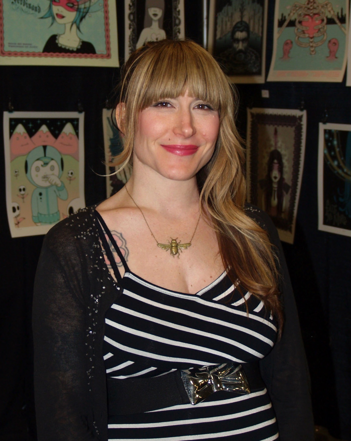 Artist Tara McPherson at the Meadowlands Exposition Center in Secaucus, New Jersey on April 16, 2016, Day 1 of the 2016 East Coast Comicon. This photo was created by Luigi Novi. It is not in the public domain, and use of this file outside of the licensing terms is a copyright violation.